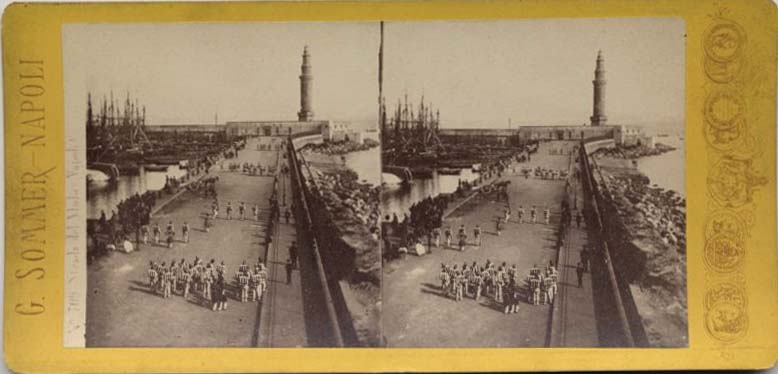 Giorgio Sommer (1834-1914), "Road of the piers in Naples". Numero di catalogo: 709. Stereo card.